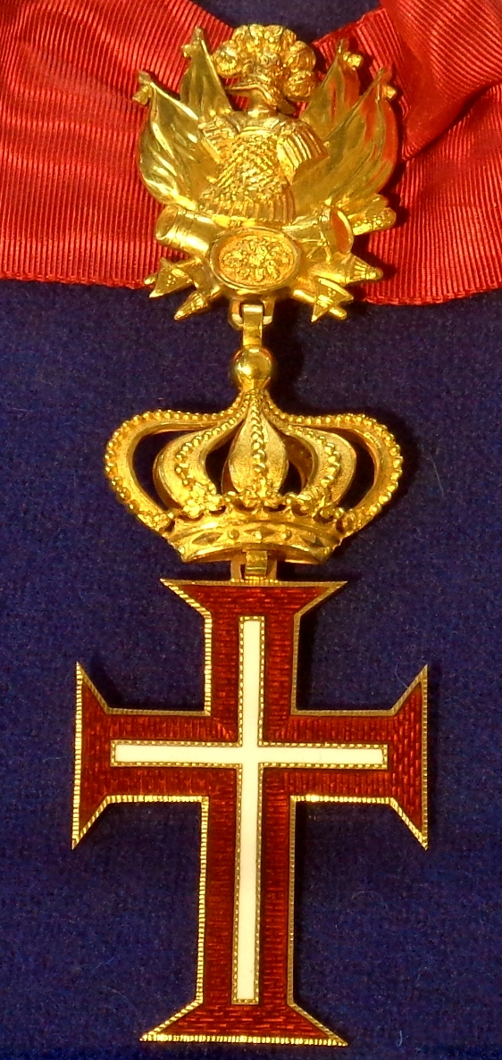 Supreme Order of Christ, badge. Vatican. The exhibition of the Tallinn Museum of Orders of Knighthood, Estonia.